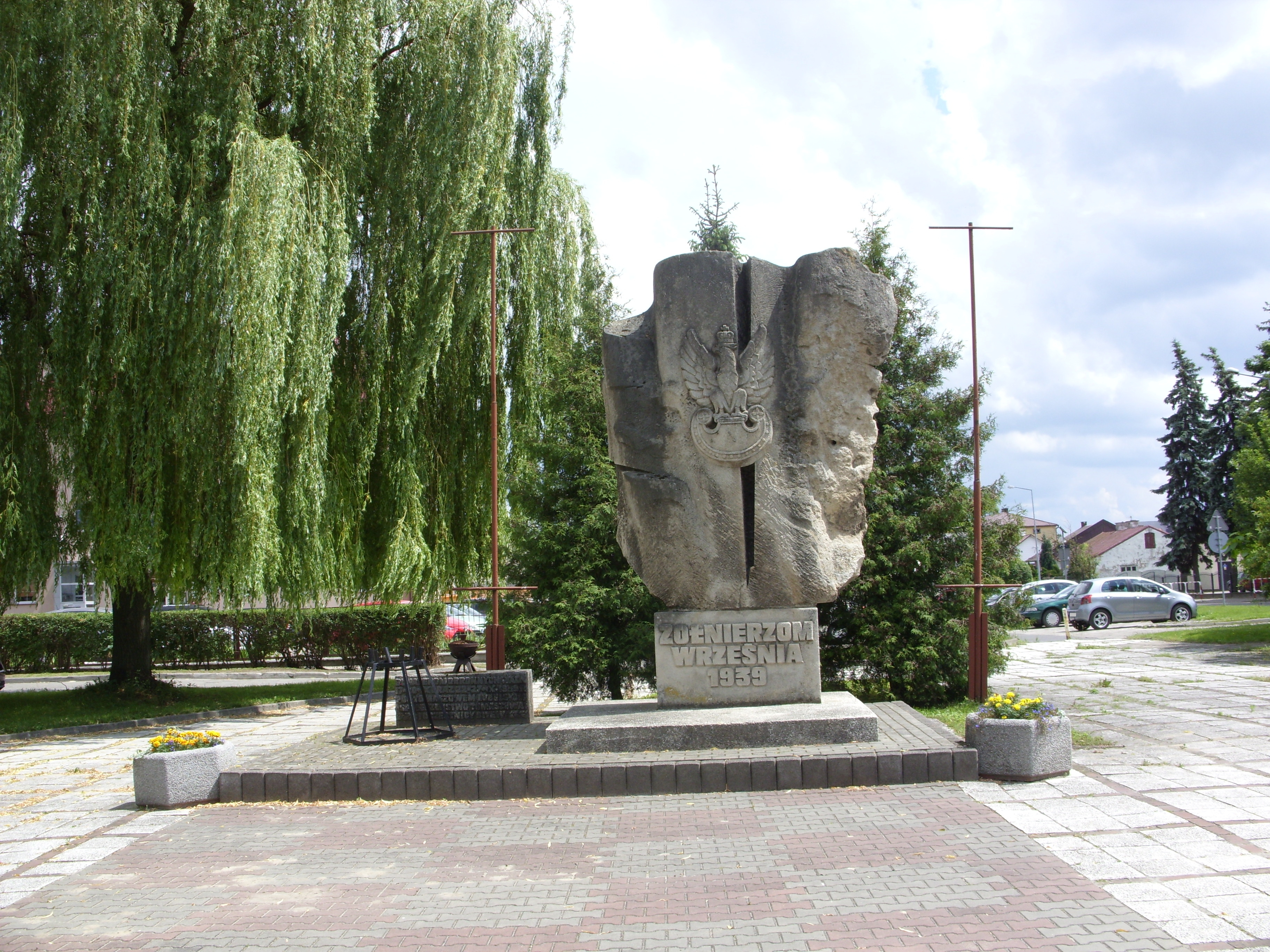 Monument to the Soldiers of September 1939 in Tomaszów Lubelski. 1939 Polish Defense War against Nazi Germany.